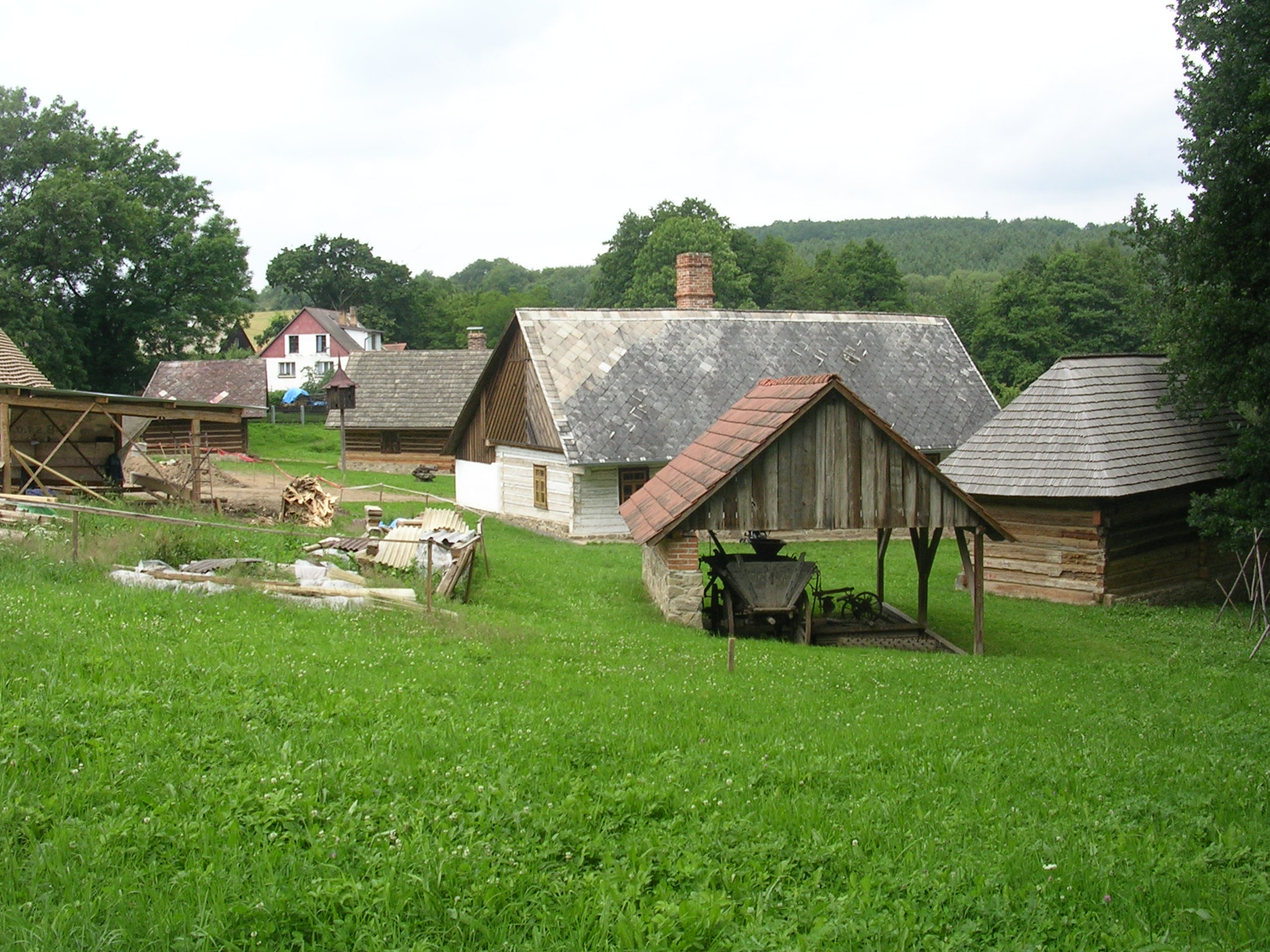 Vysoký Chlumec, Příbram District, Central Bohemian Region, the Czech Republic. Open air museum of village buildings.